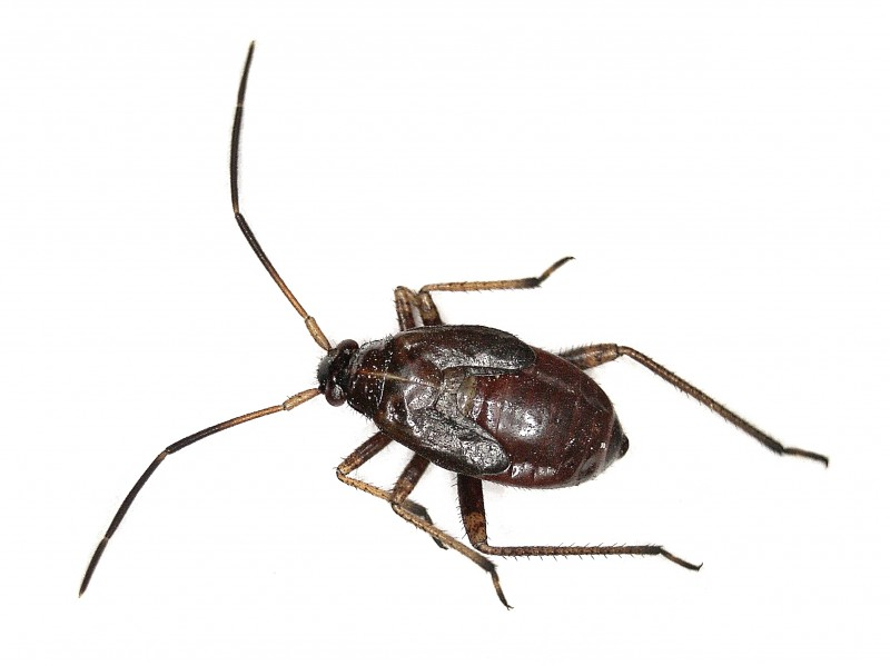 Adelphocoris seticornis (Miridae) - (nymph), Arnhem - Zuid - spoordijk, the Netherlands